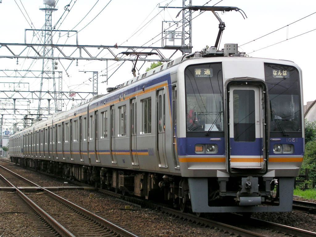 Nankai Electric Railway type 1000